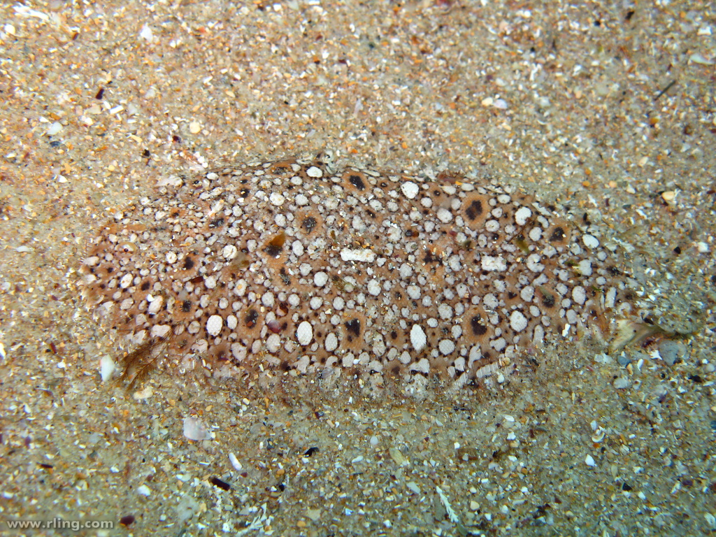 A Southern Peacock Sole (Pardachirus hedleyi). Fairy Bower, Manly, NSW